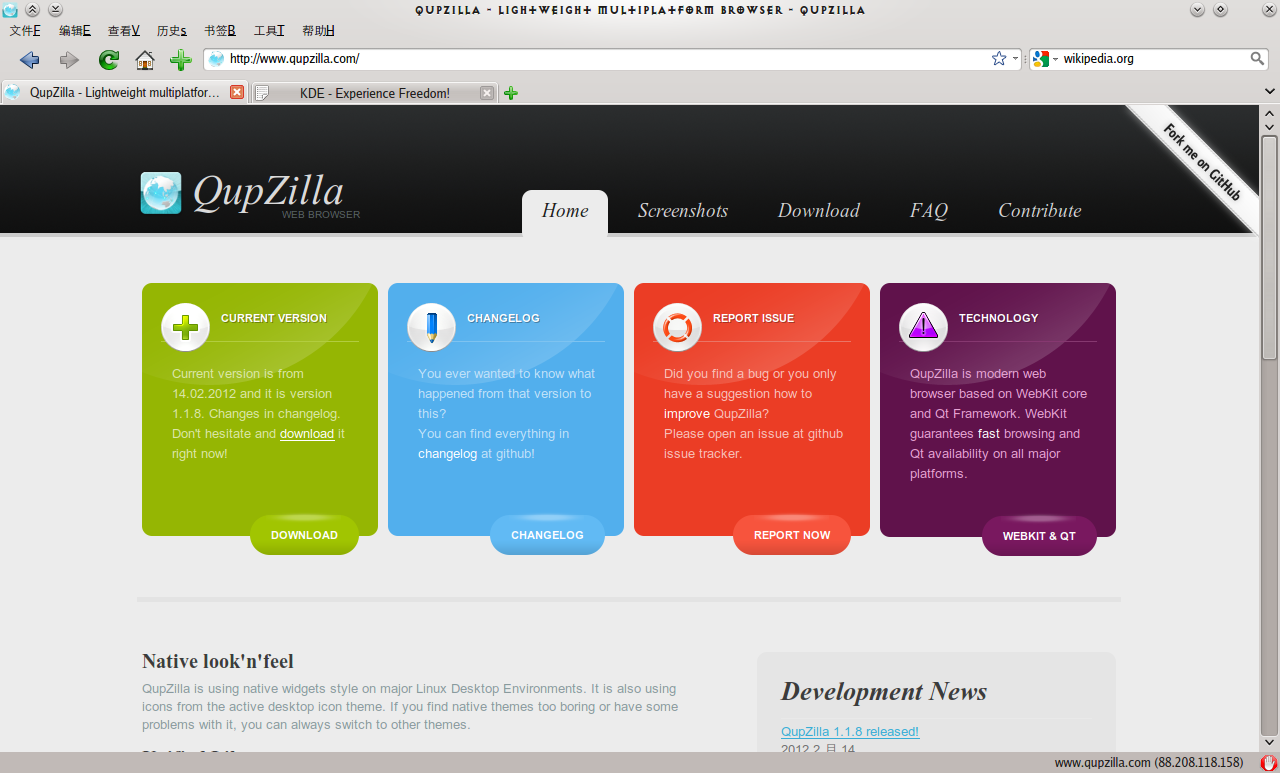 Screenshot of Qupzilla browser